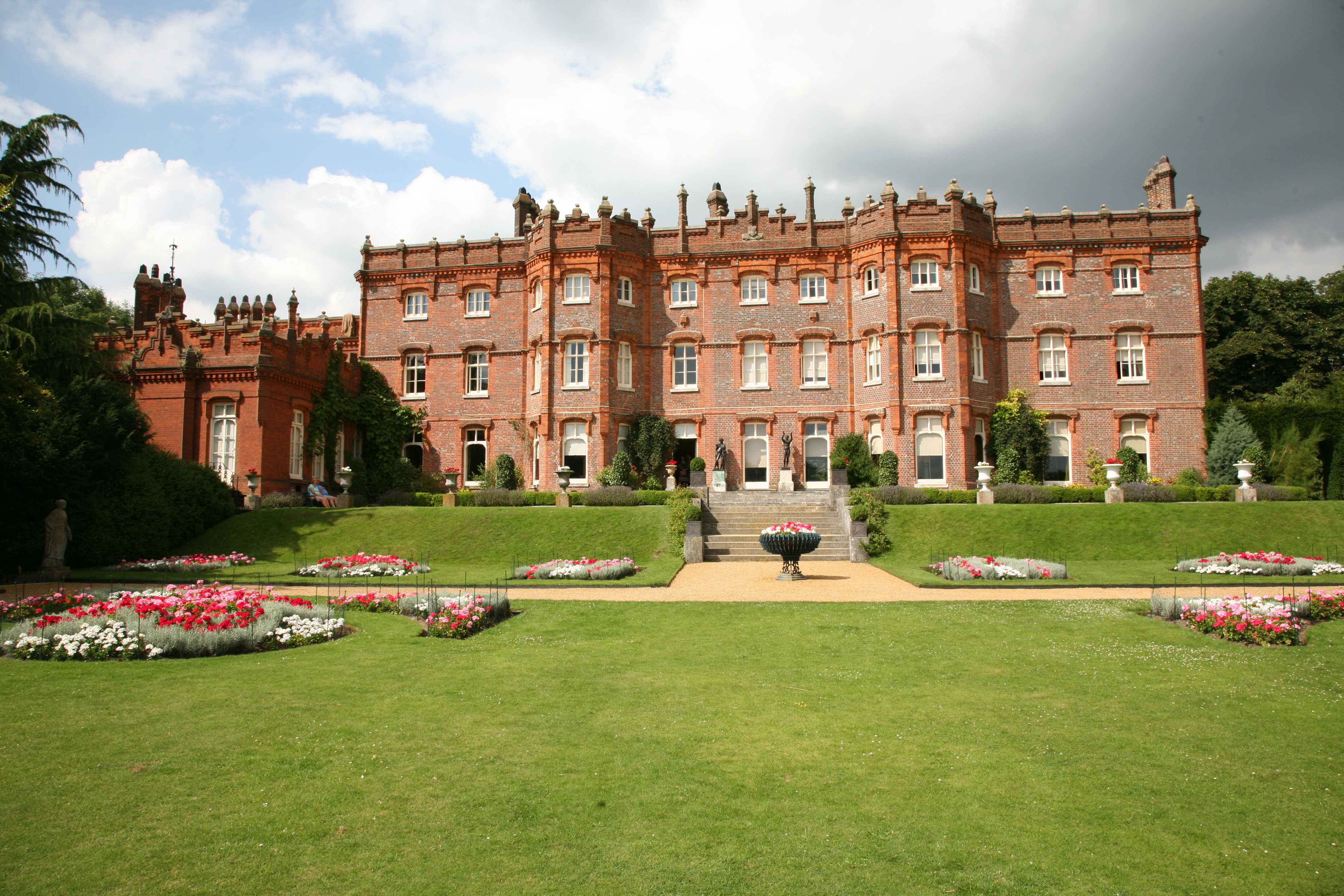 Hughenden Manor. The residence of Benjamin Disraeli, later Earl of Beaconsfield. Now a National Trust property.